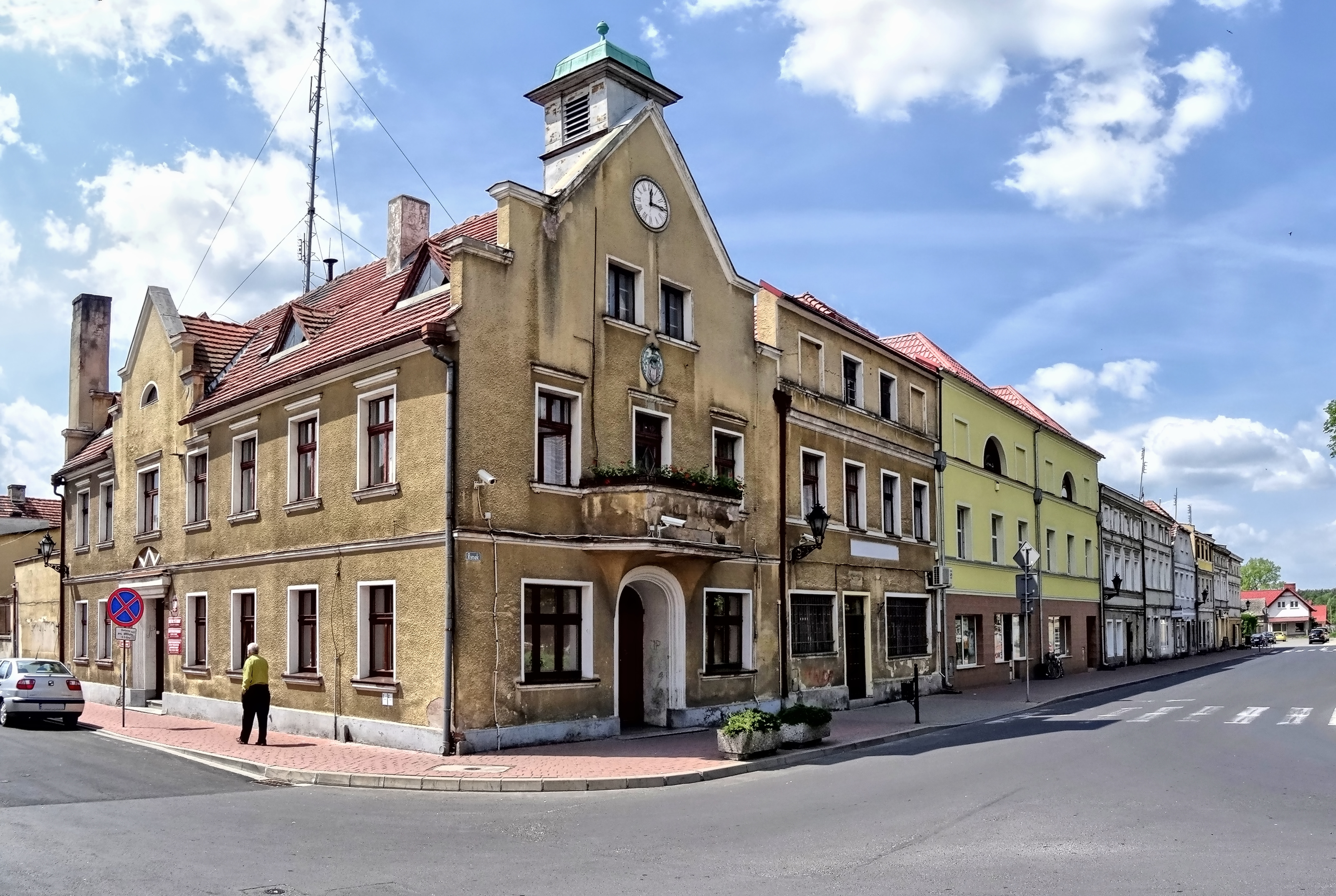 Szlichtyngowa, the town hall and the southern part of the Market Square